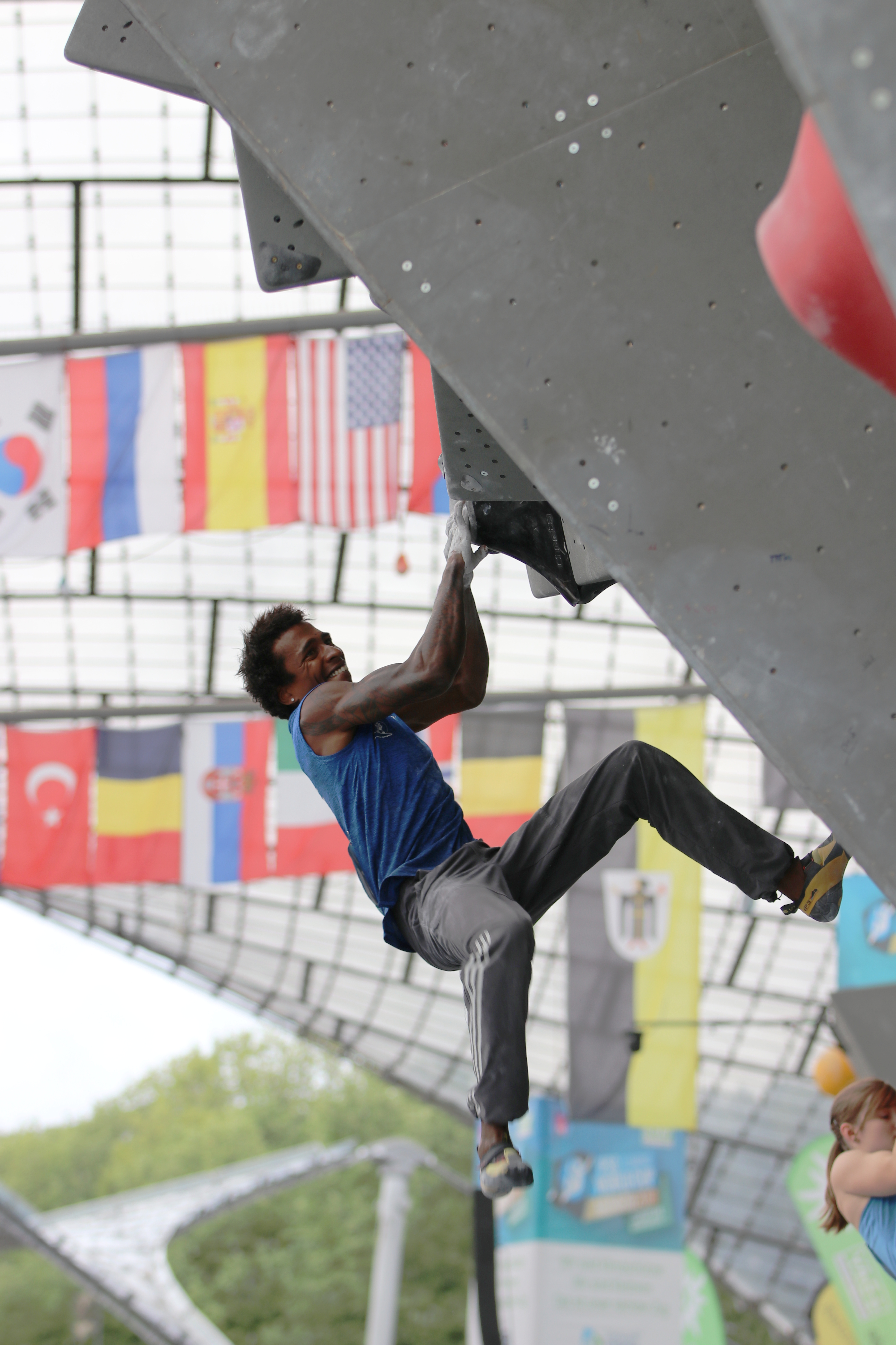 Mickael Mawem FRA at the Boulder Worldcup 2017 in Munich, Germany.